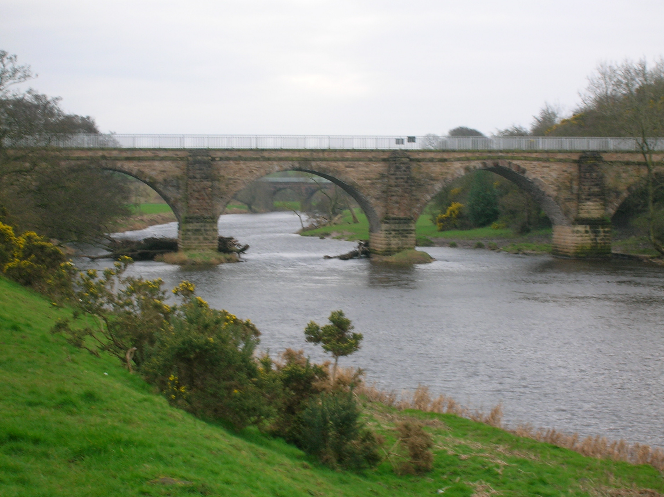 Laigh Milton viaduct in North Ayrshire over the river Irvine. One of the World's oldest railway bridges. 2007. Scotland.